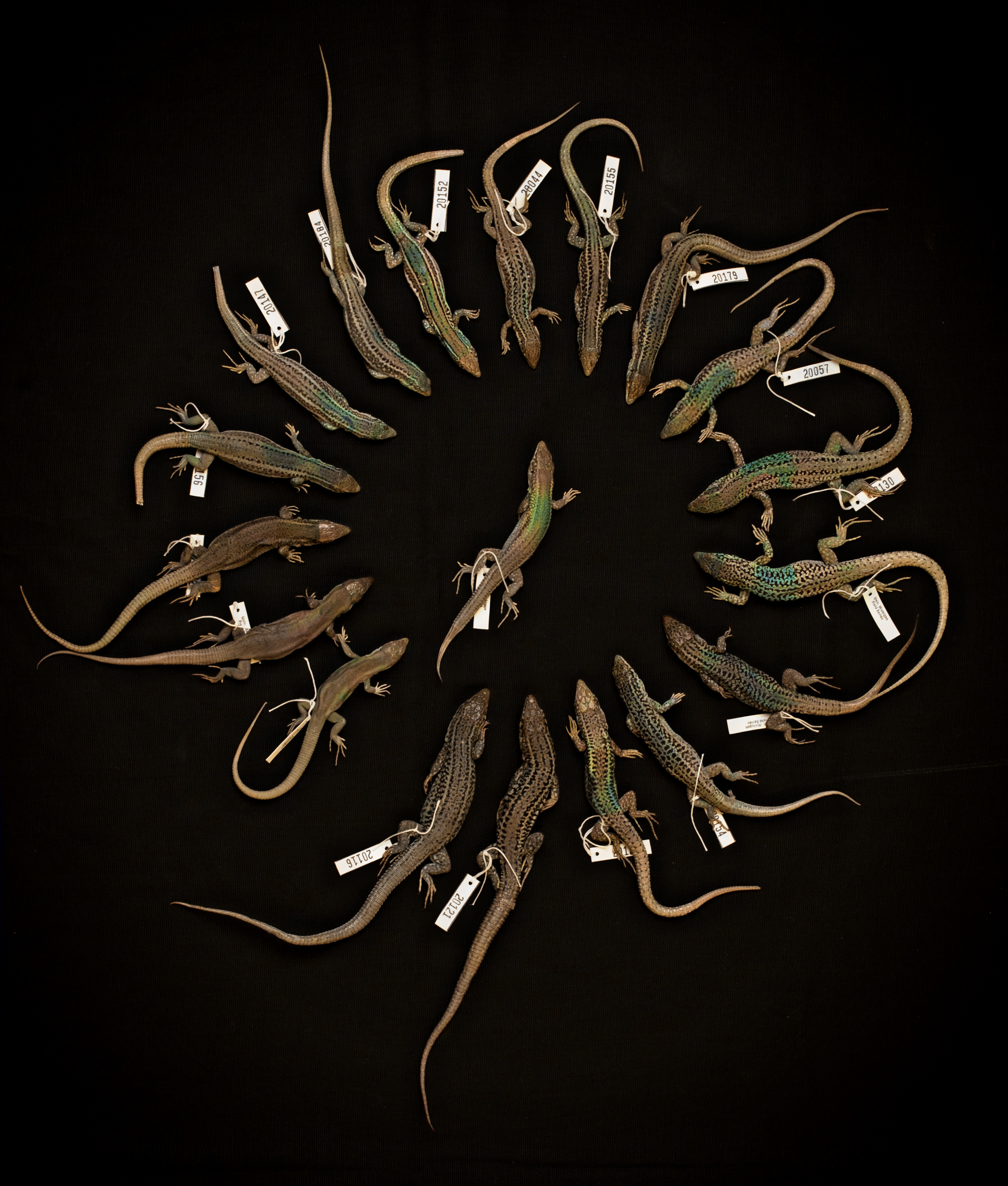 This circle of Podarcis erhardii, (commonly known as the Aegean Wall Lizard), show slightly different colorings and features depending which island they originated from. All of these lizards were caught on the Cyclades cluster of islands of Greece. Photo by Dave Brenner, SNRE Special thanks to the University of Michigan Museum of Zoology